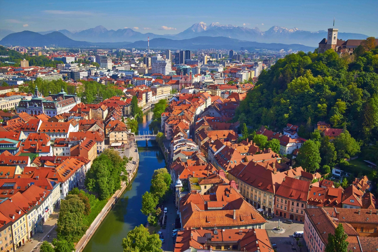 Ljubljana-panorama-Janez-Kotar